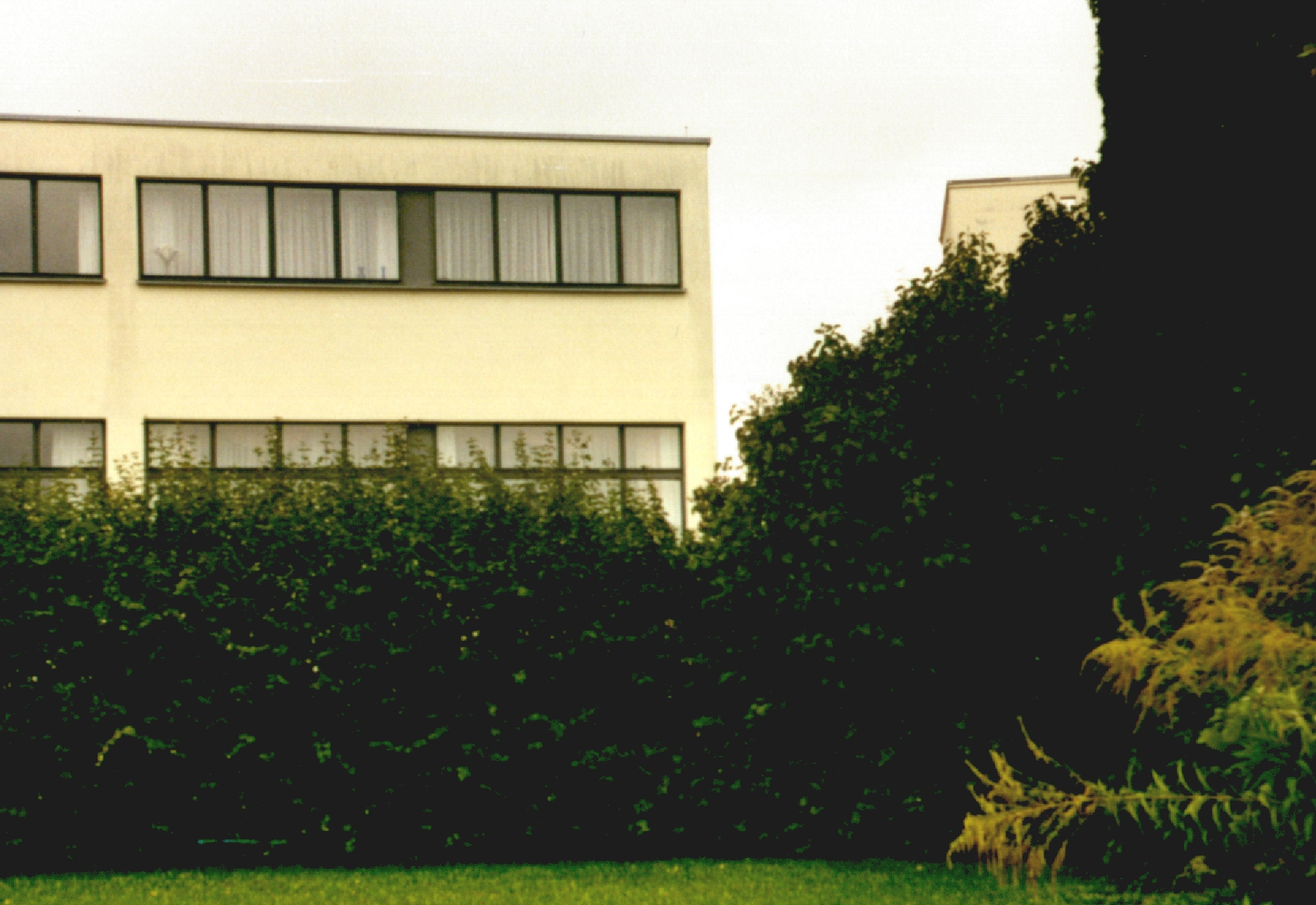 Stuttgart-Weissenhof, Germany House by Mart Stam, 1927. International style. analogue photography taken by shaqspeare, September 2001, scanned 2005 GFDL